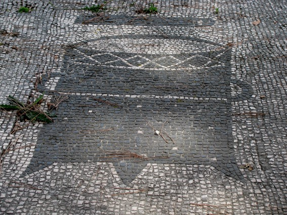 Statio 7, Square of Corpoations (Ostia antica) - Grain measure and rutellum for levelling